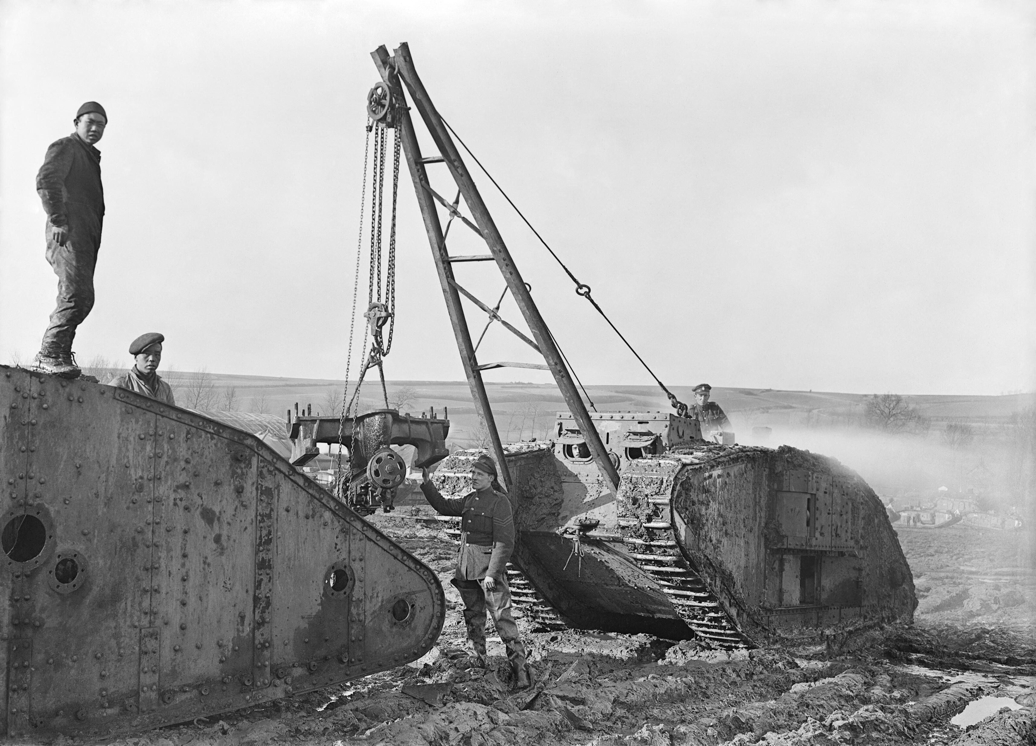 The British Army on the Western Front, 1914-1918 Chinese labourers hoisting parts from a salvaged tank by crane at the Central Stores, Tank Corps. Teneur, spring 1918.